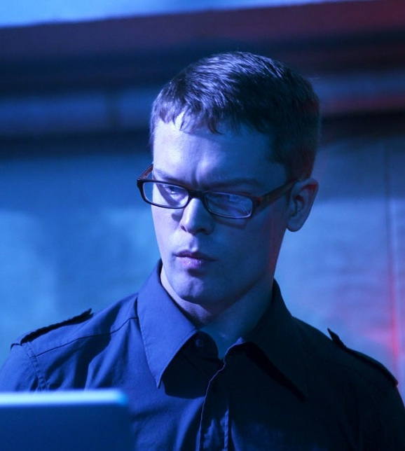 Photo of Surgeon DJing at Womb, Tokyo on 30 September 2006.